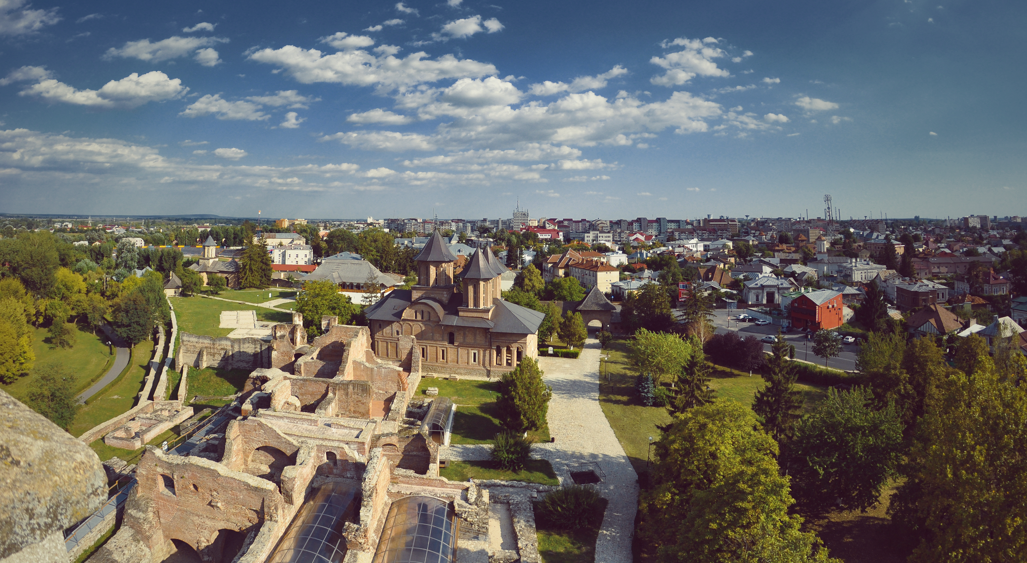 "Dormition of the Theotokos" Church in the Old Royal Court at Targoviste Biserica Domnească "Adormirea Maicii Domnului", Târgoviște (Curtea Domnească) construction finished in 1585, iconography from 1698